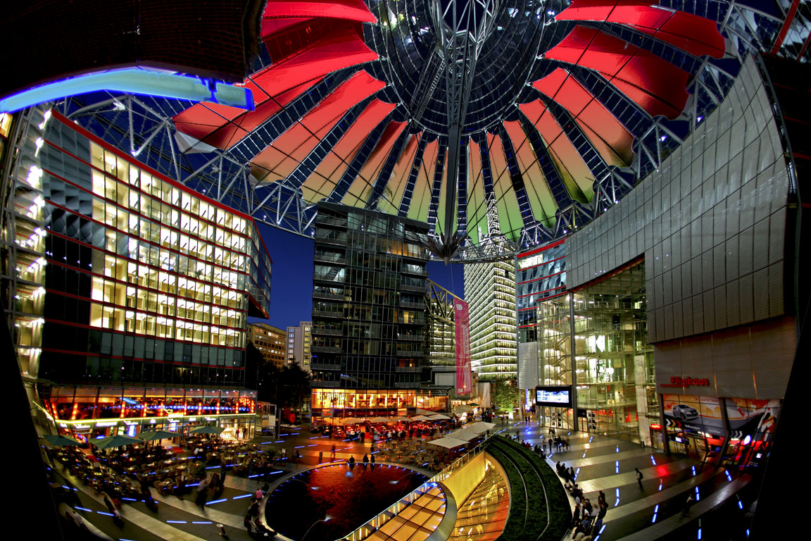 Central forum of the Sony Center, Berlin, Germany